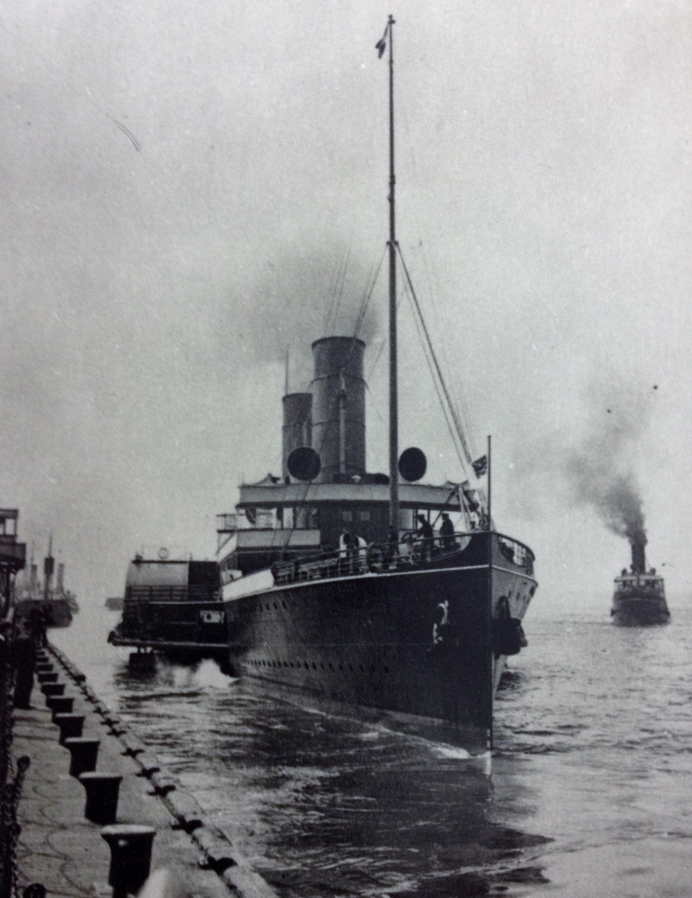 Empress Queen pictured docking at Liverpool.